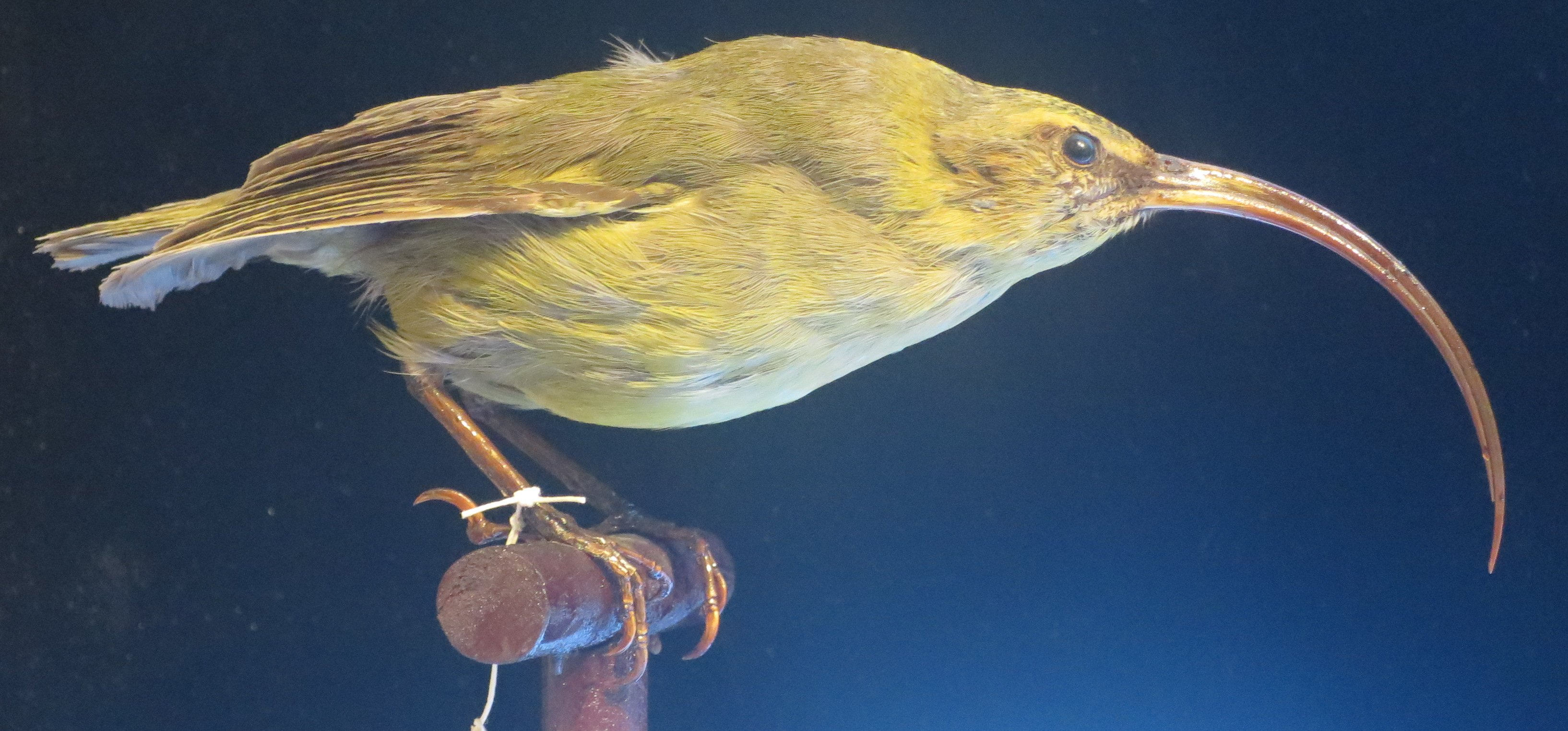 Akialoa stejnegeri, Bishop Museum, Honolulu